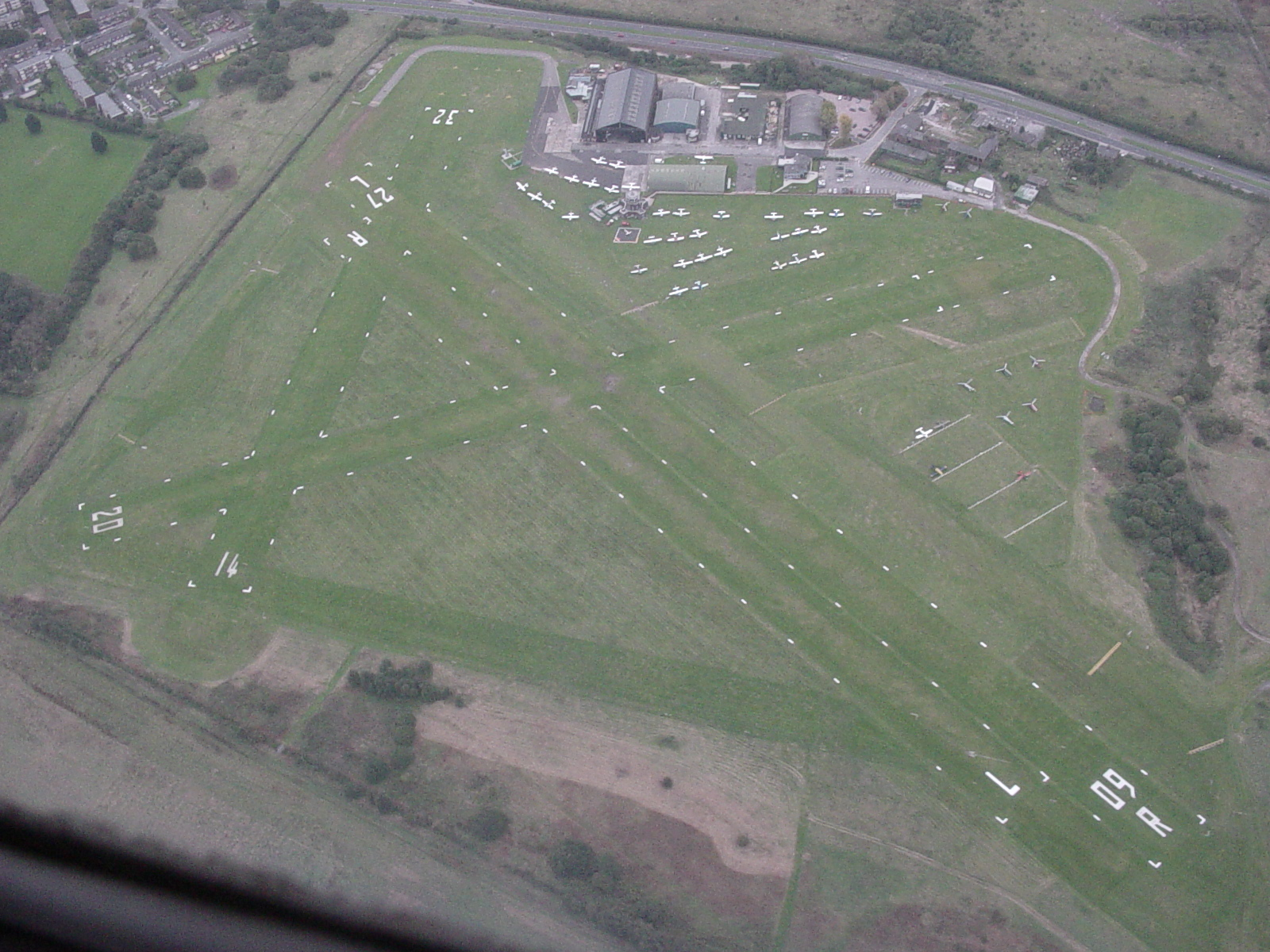 Overhead Barton Aerodrome, Greater Manchester, England